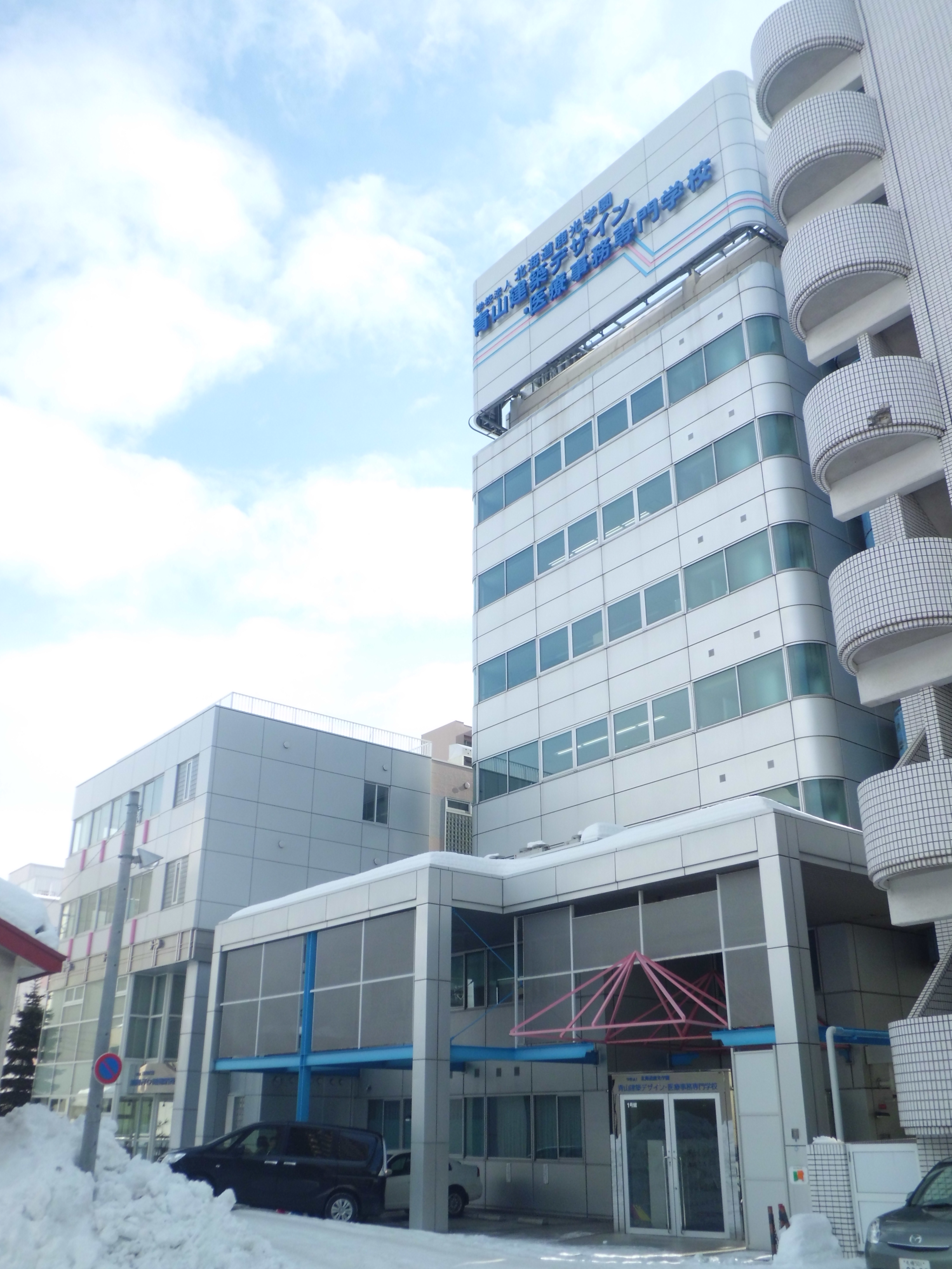 Aoyama Architecture Design and Medical Coding School